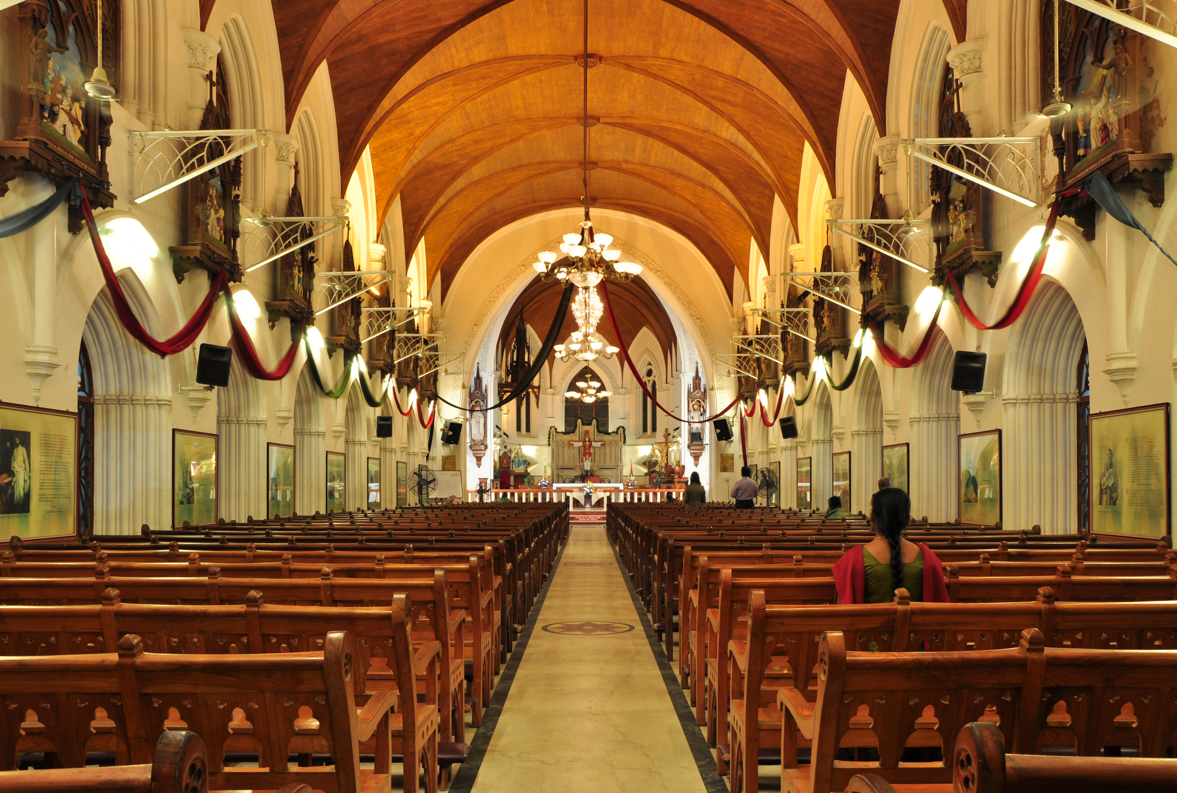 Interior of San Thome Basilica in Chennai, India.